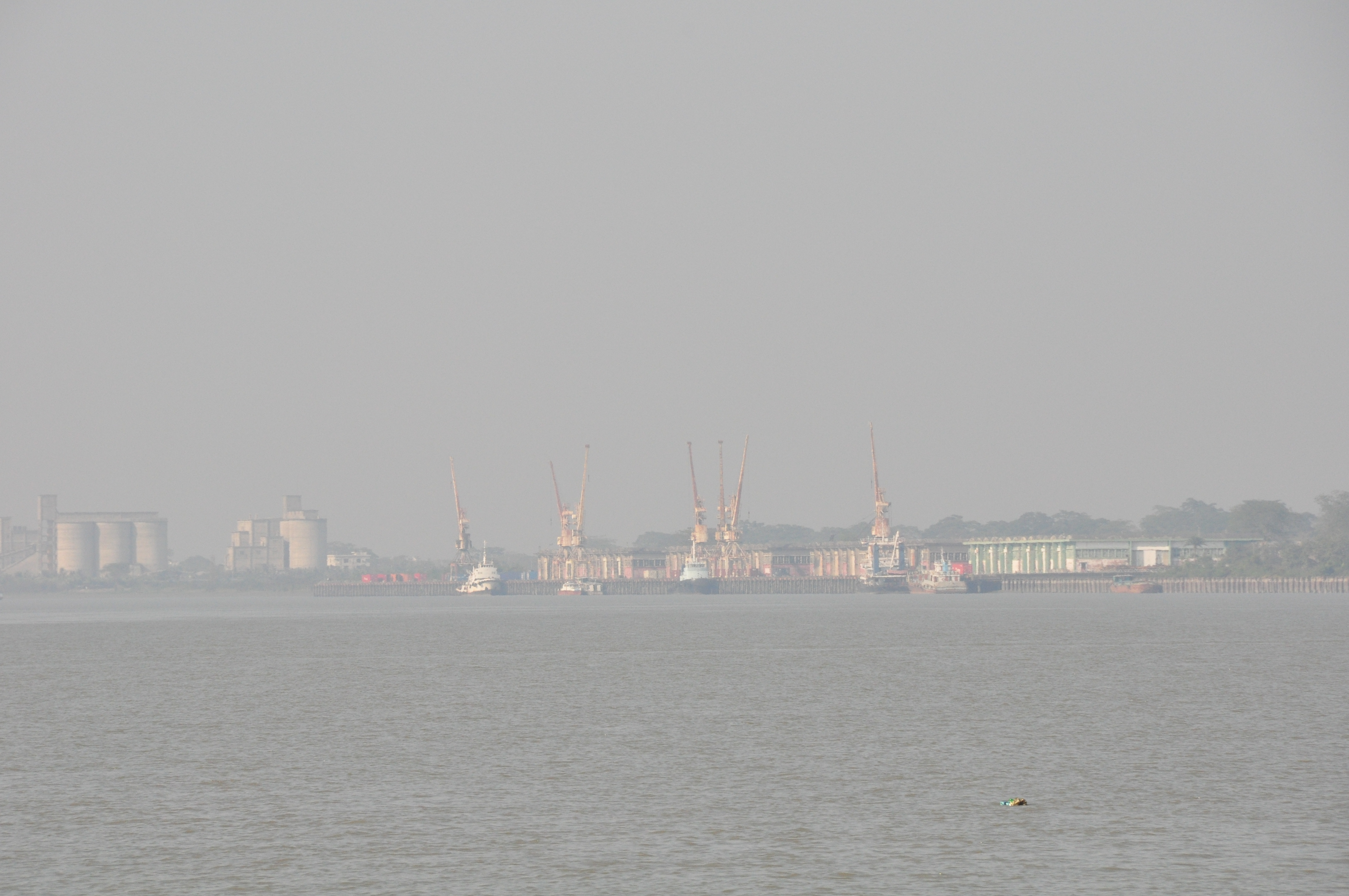 CBA Site visit to Mongla, Khulna, Bangladesh. Climate change adaptation